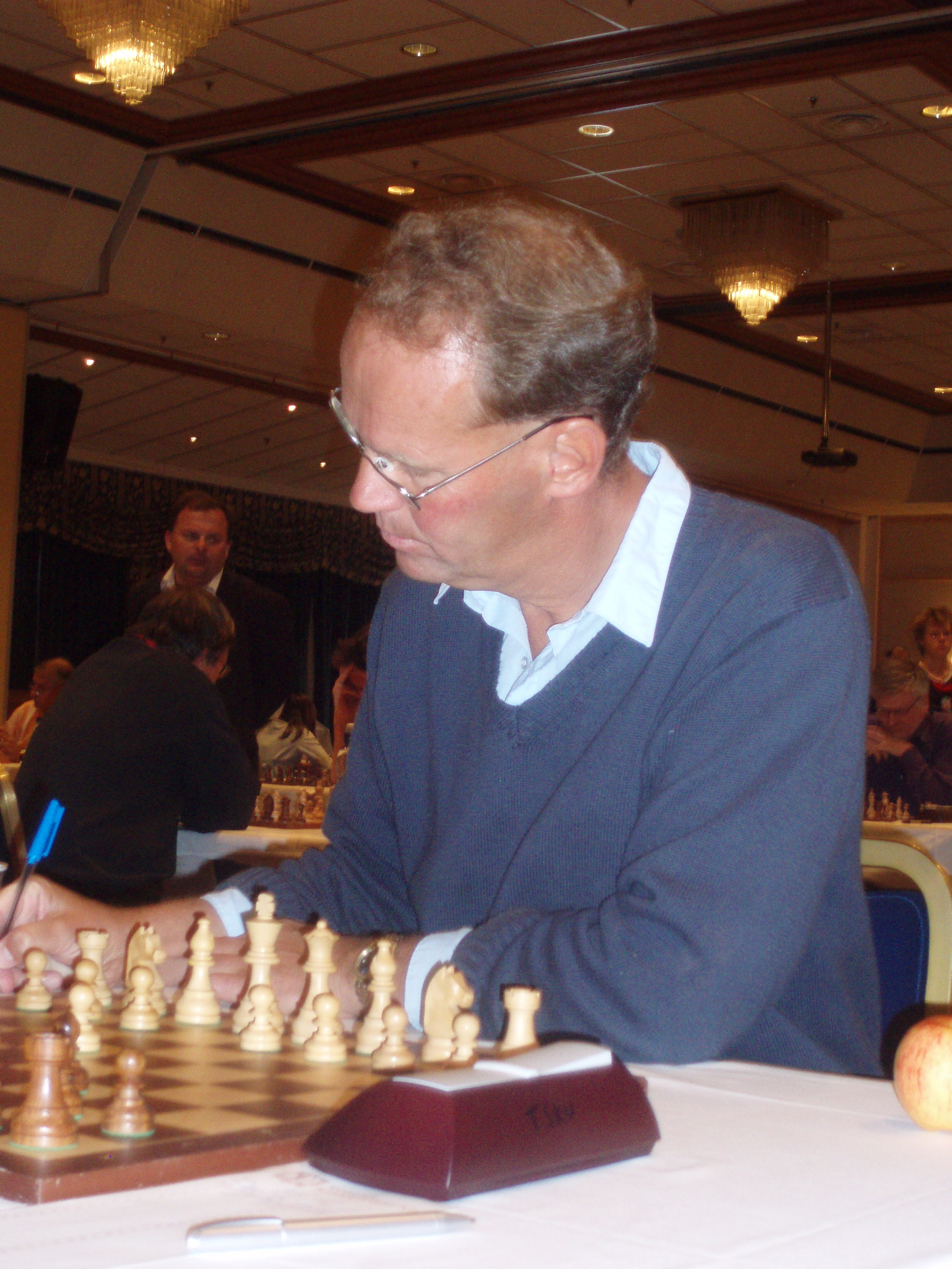 Bjørn Tiller at Arctic Chess Challenge 2008, Tromsø august 2008